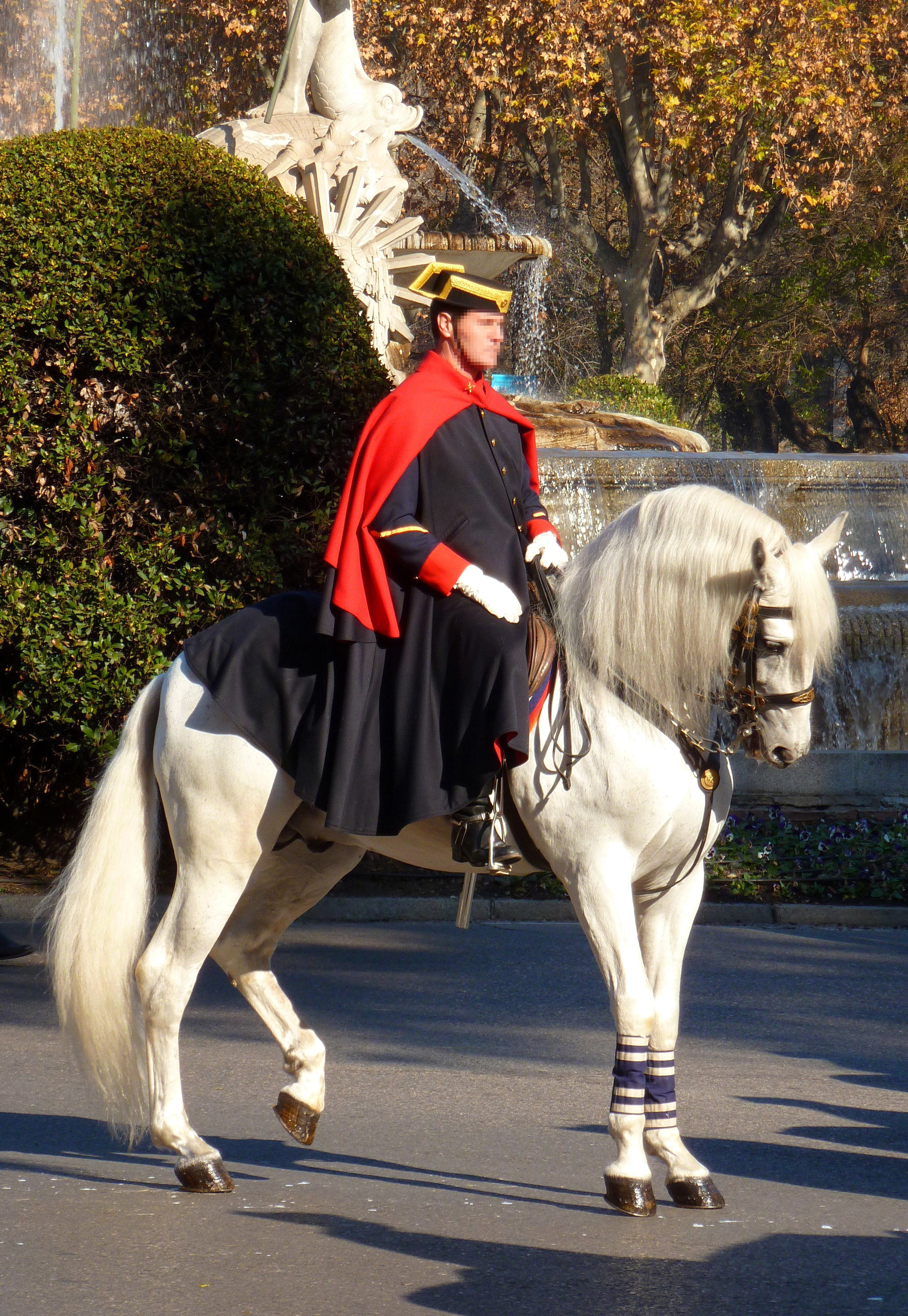 Horse guard of the Spanish Civil Guard in gala dress uniform.